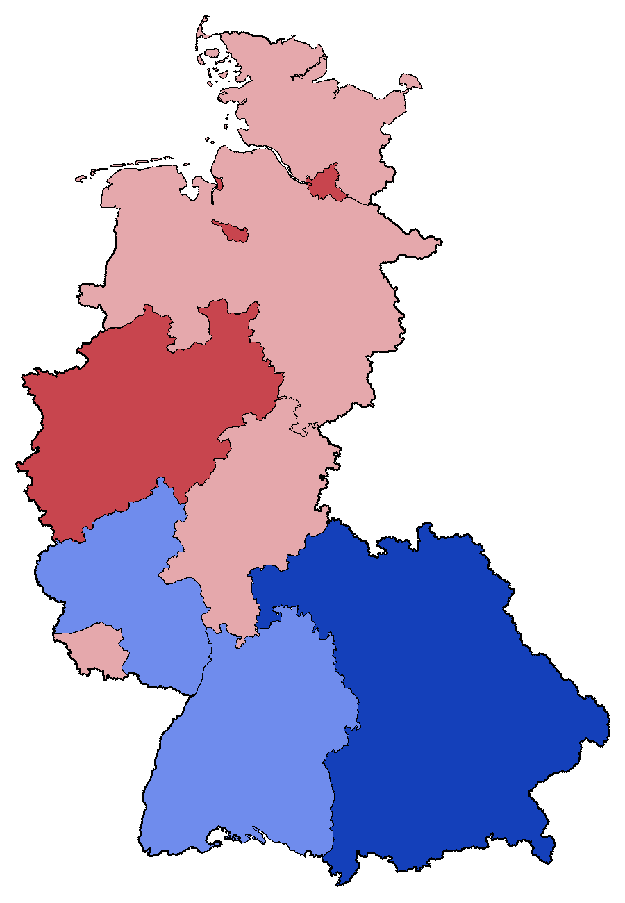 Electoral map showing the party list vote results (Zweitstimmen) of the 1972 Bundestag (West German parliament) elections by state. Red denotes states where the SPD had the the absolute majority of the votes; pink denotes states where the SPD had the plurality of votes; darker blue denotes states where CDU/CSU had the absolute majority of the votes; and lighter blue denotes states where CDU/CSU had the plurality of votes.